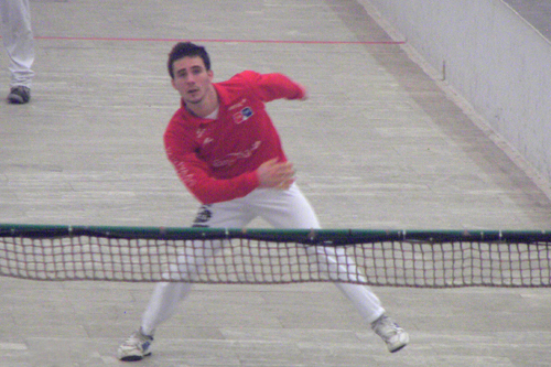 Nacho, during the final match of the 2009/10 Circuit Bancaixa